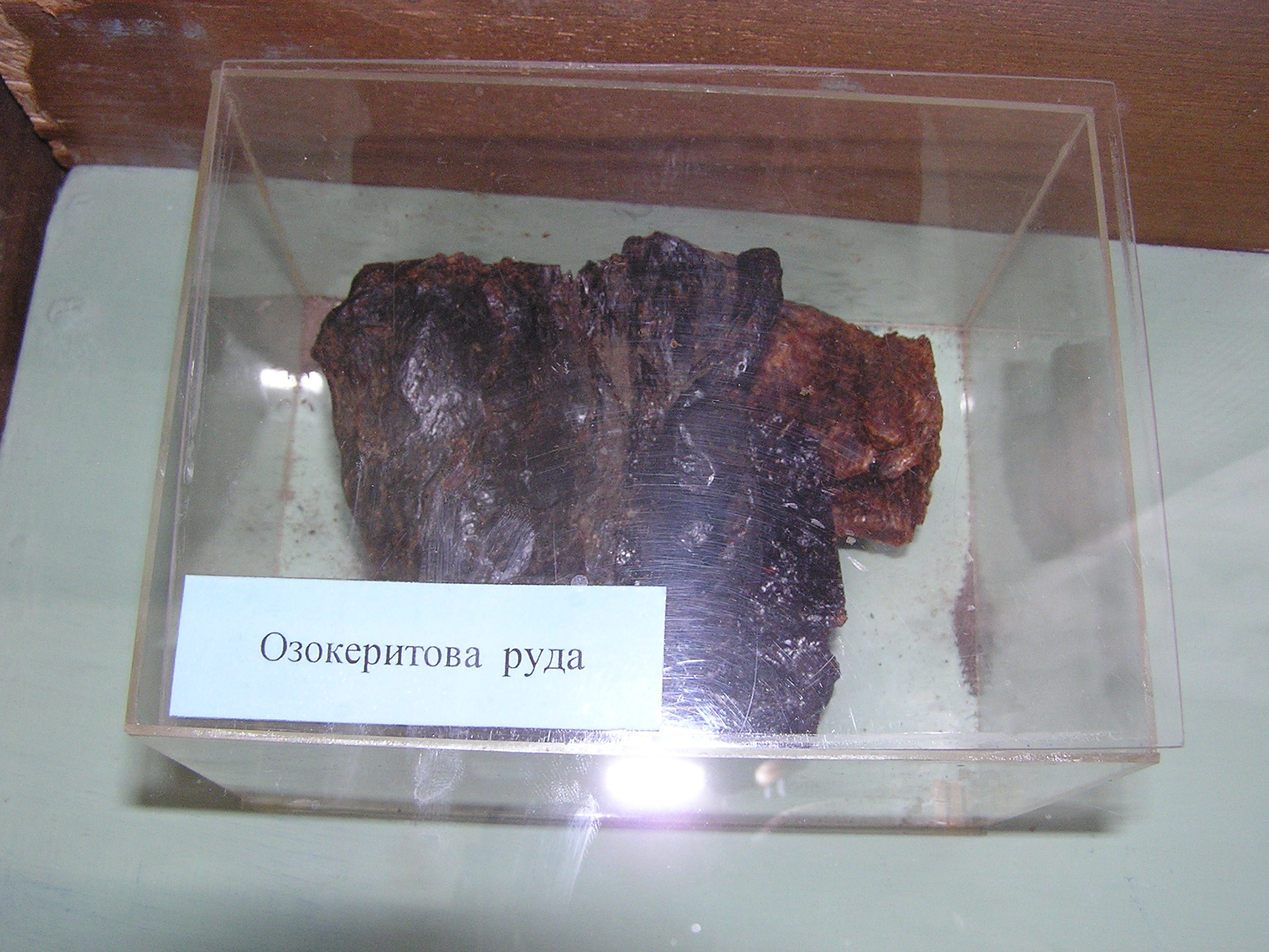 History museum of Truskavets History Museum of Truskavets Native nameМузей истории г. ТрускавецLocationTruskavetsCoordinates49° 16′ 39.5″ N, 23° 30′ 23.96″ E Established29 December 1982 Authority control : Q12130489 institution QS:P195,Q12130489